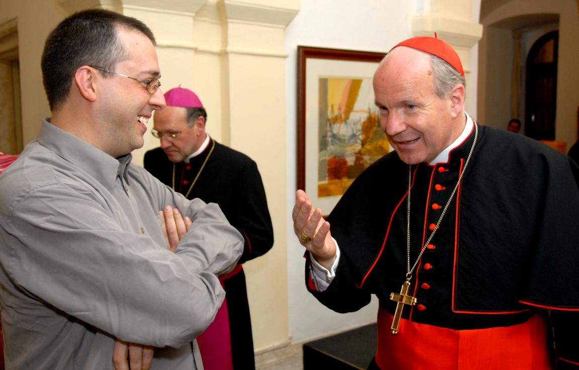 Cardinal Schönborn and me in Jerusalem (8 nov. 2007)